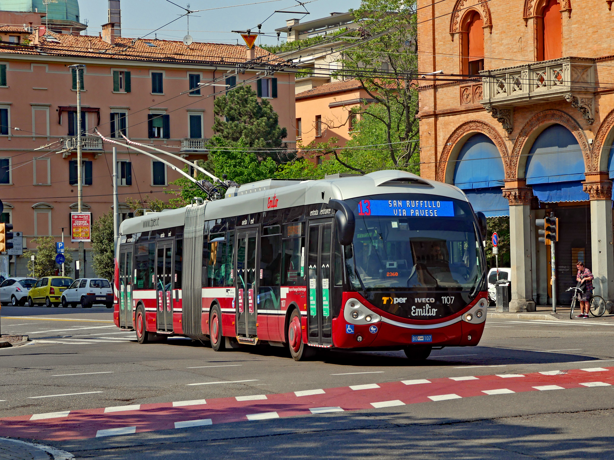 Bologna trolleybus 1107, a 2015 Iveco Bus Crealis 18, eastbound on route 13. It is pictured at the east end of Via Aurelio Saffi, about to cross Piazza di Porta San Felice.